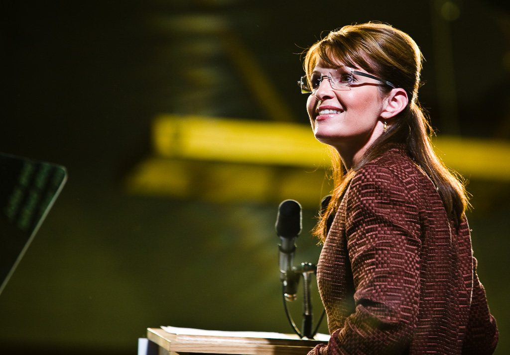 Alaska Governor Sarah Palin at Dover, New Hampshire.